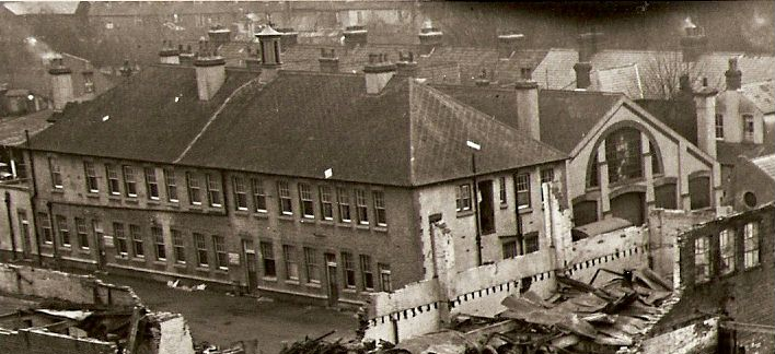 A small section of background detail from a photograph in the Barrett Collection, showing the Westgate Hall having survived the 1944 bombing of Canterbury in World War II. The main photo, from which this extract was taken, showed the bombed Barretts premises in the foreground. Full archive, library and online searches have been made to ascertain the name of the photographer, without success.